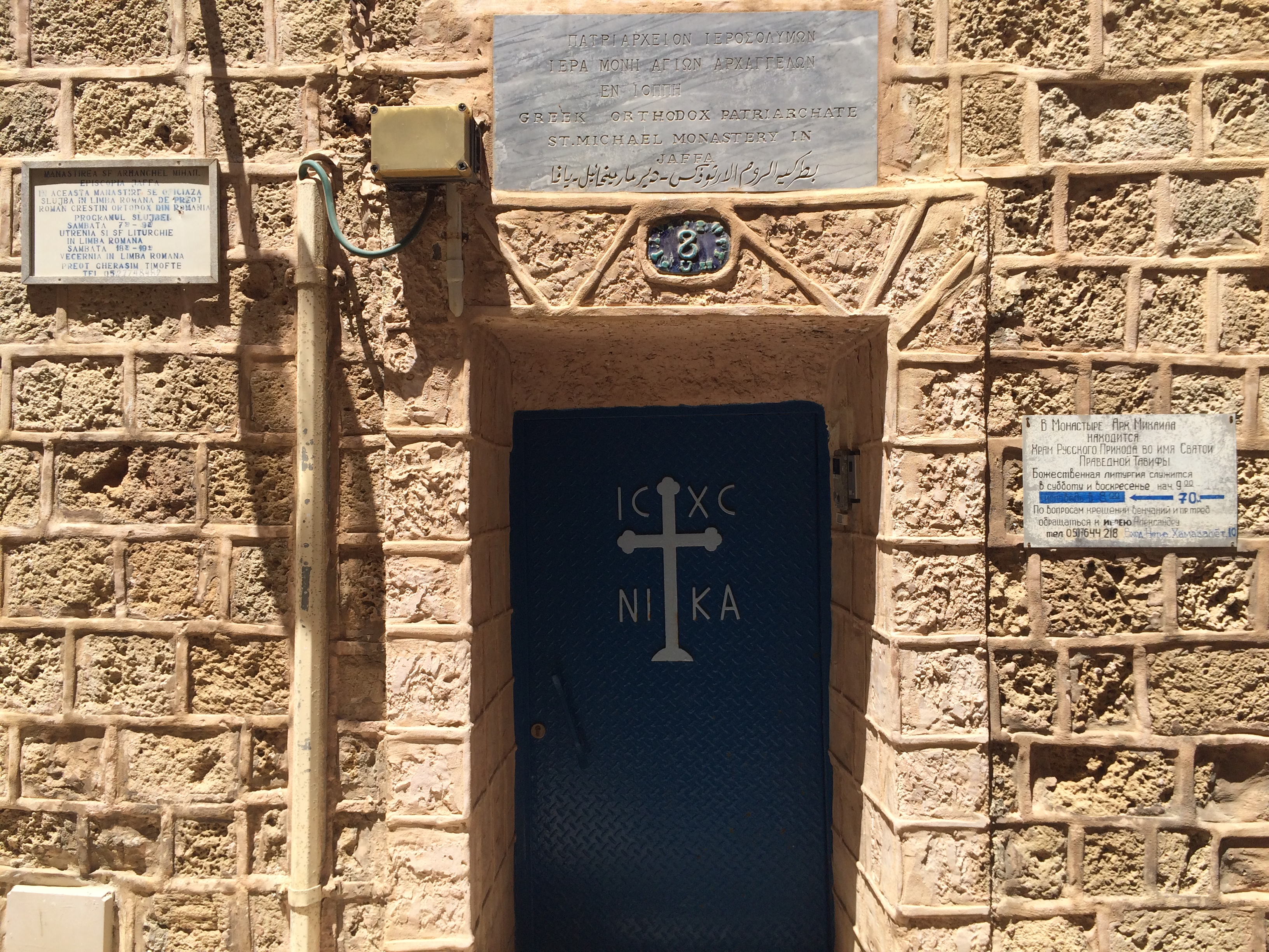 Entrance in Greek Orthodox Monastery of Archangel Michael in Jaffa